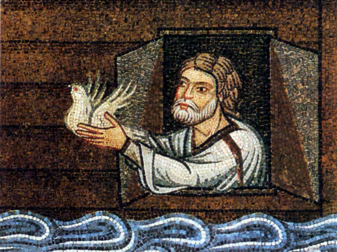 Noah. Mosaic in Basilica di San Marco, Venice (fragment)